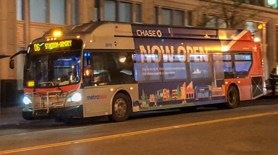 WMATA New Flyer XN40 2876 on Route D6 detouring along F street due to a Capitals game